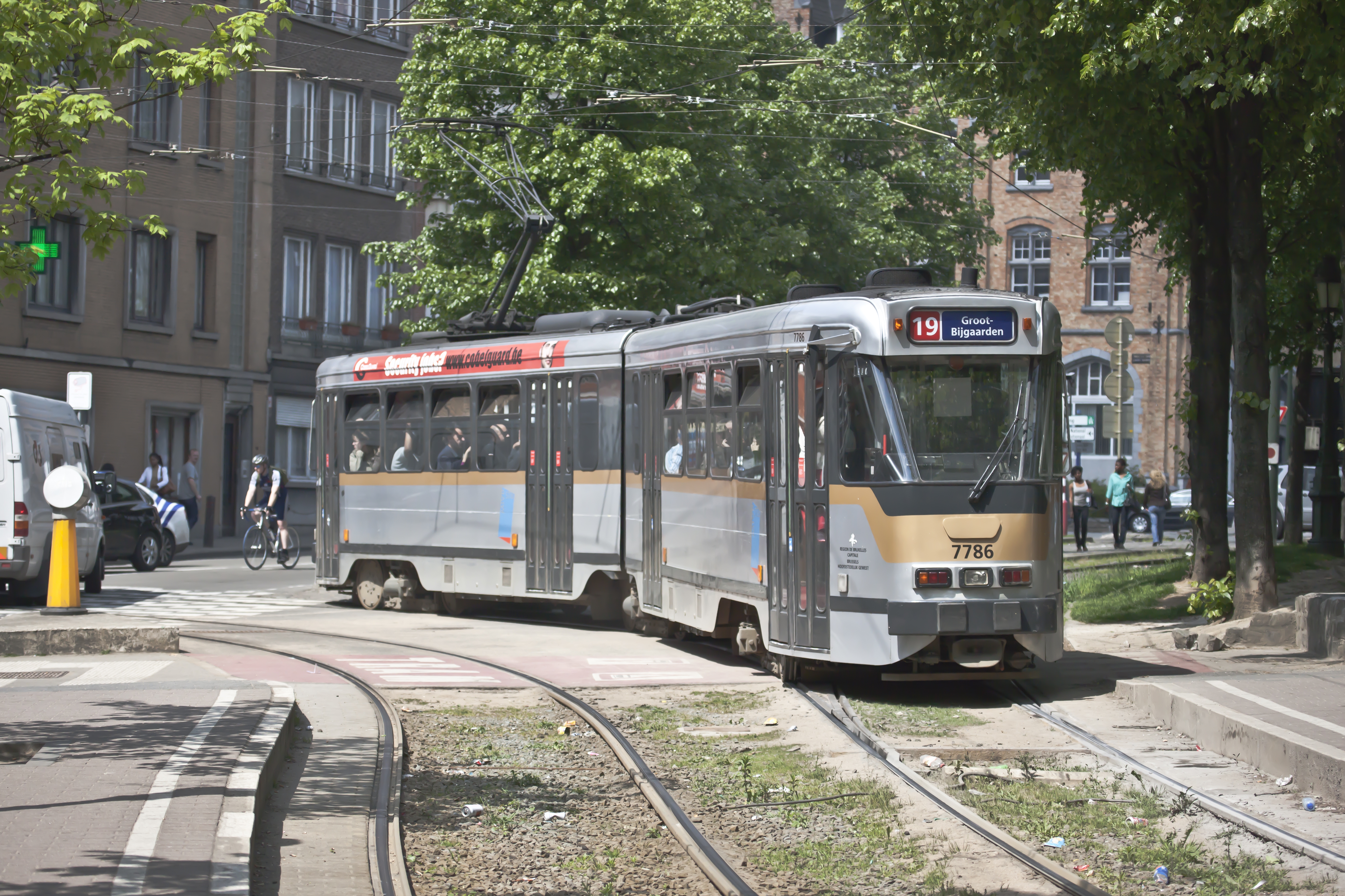 The tram route 19 in Brussels, Belgium is a tram route operated by the STIB/MIVB, which connects the Flemish town of Groot-Bijgaarden in the municipality of Dilbeek to the De Wand stop in Laeken in the municipality of the City of Brussels.